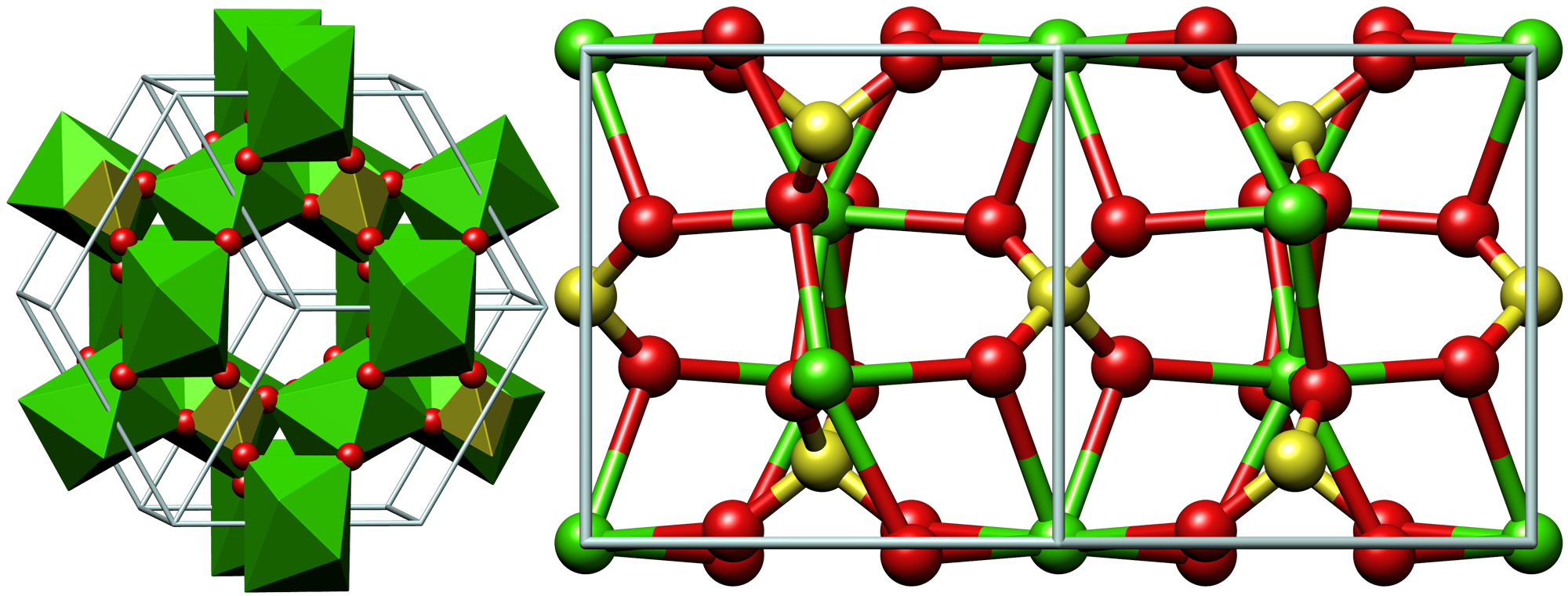 Calcium sulfate, gamma-CaSO4. American Mineralogist 69 (1984) 910-918 Colour code: Calcium, Ca: green Sulfur, S: olive Oxygen, O: red Cell: sky-blue